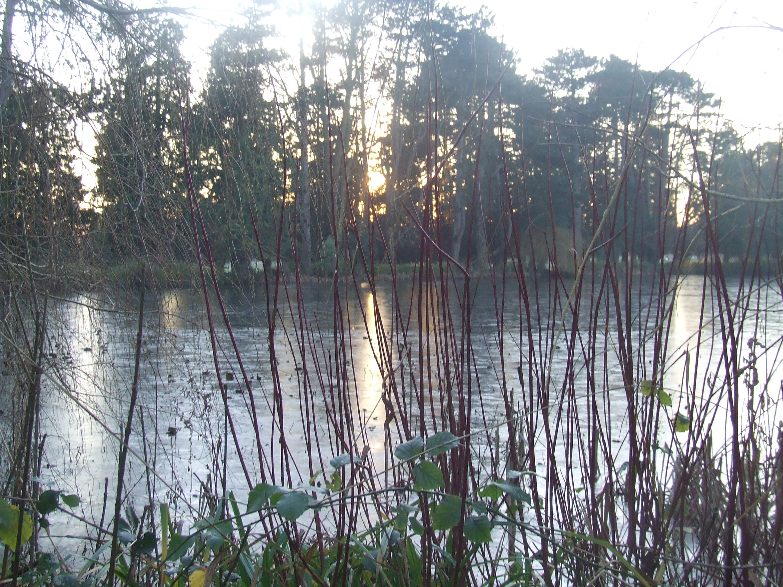 Farmleigh estate, Phoenix Park, Dublin. Sunset on Sunday 28 December 2014 at the boat lake. Left hand part of the lake is frozen, the right hand side not frozen.